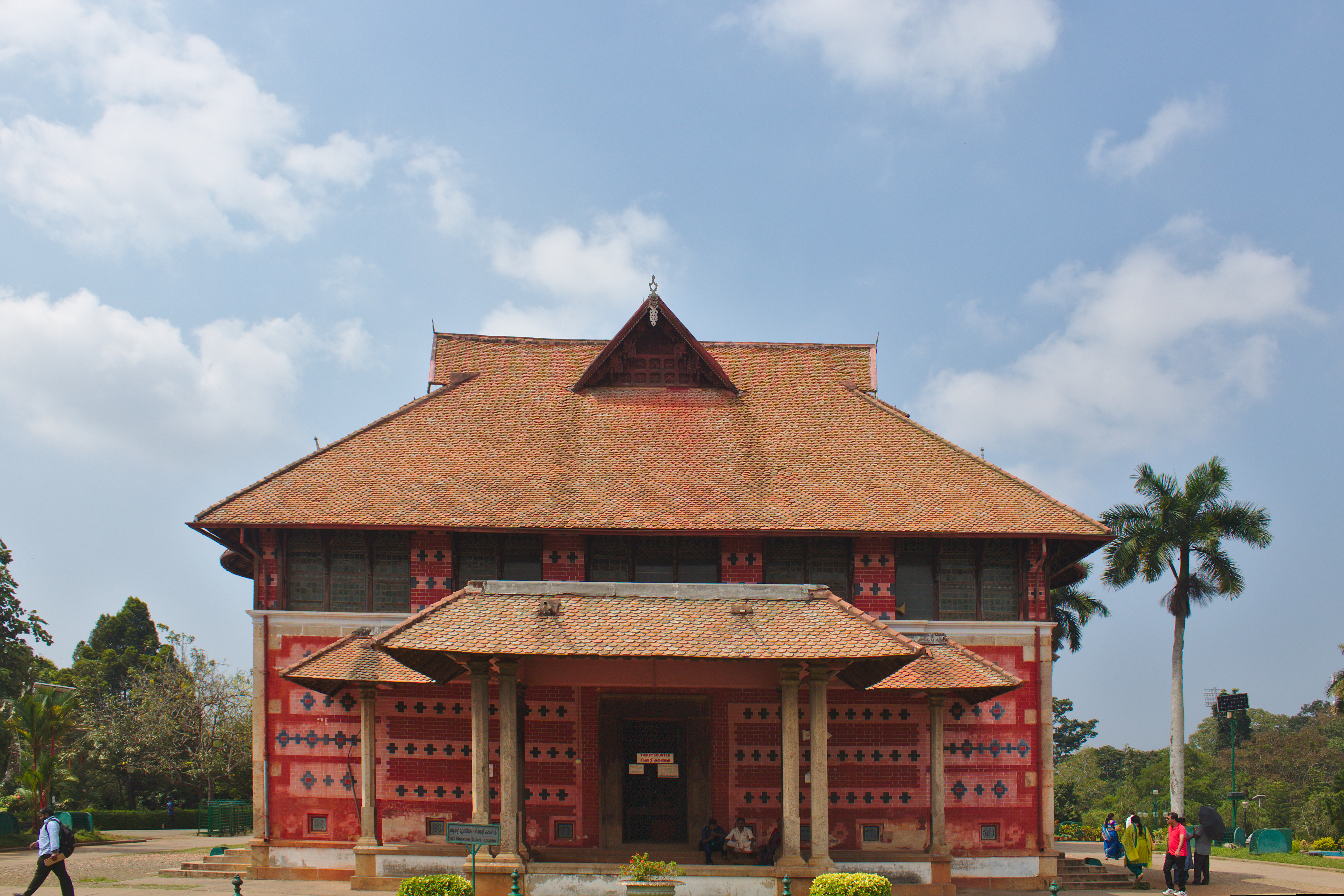 Napier Museum, Thiruvananthapuram, Kerala, India